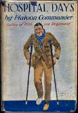 Dust jacket cover